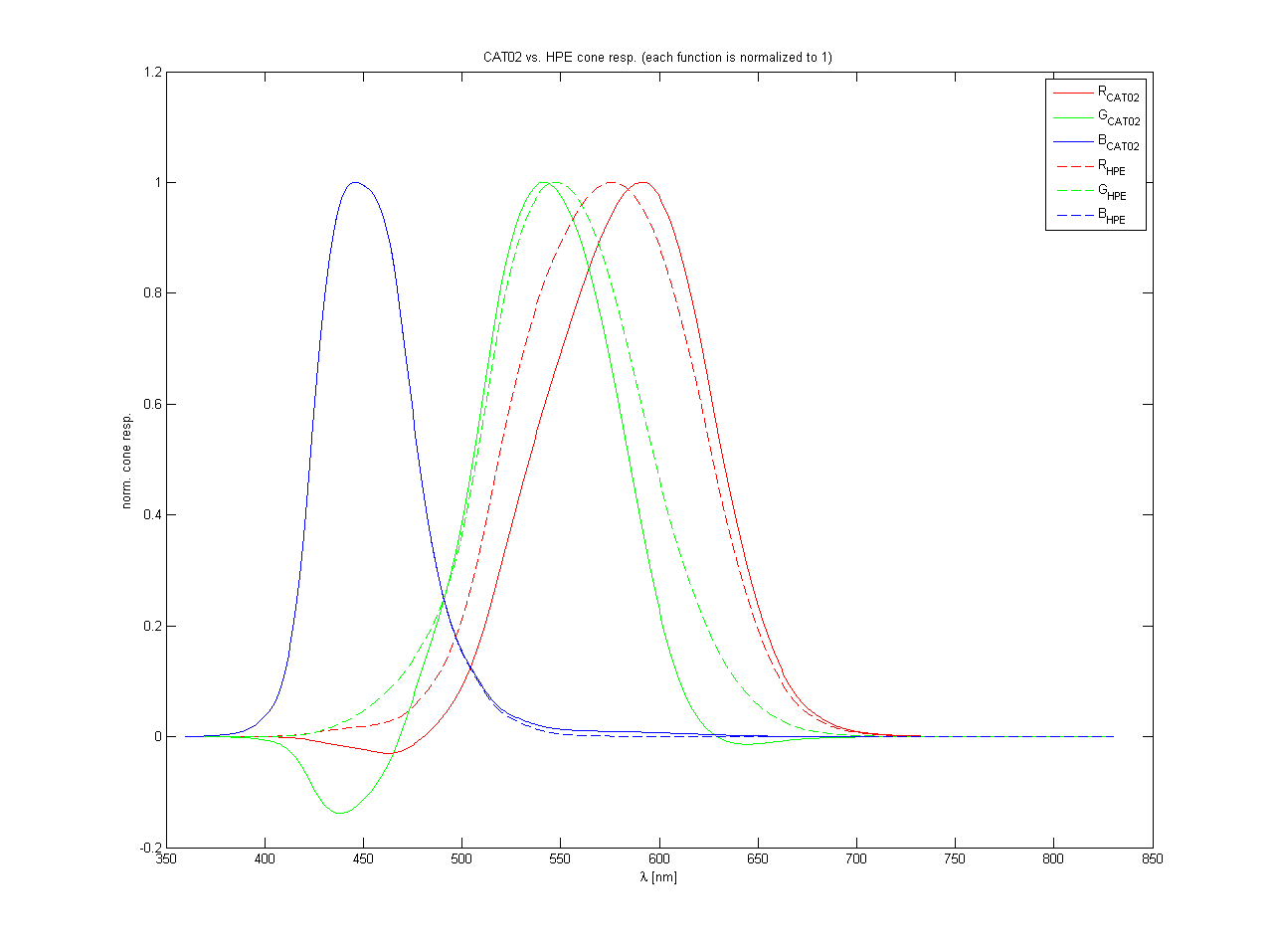 This is a comparsion of the Cone responses of the CAT02 Color Space and the Hunt-Pointer-Estevez Space. All functions are normalized to max=1 to better visualize the sharpening of CAT02.